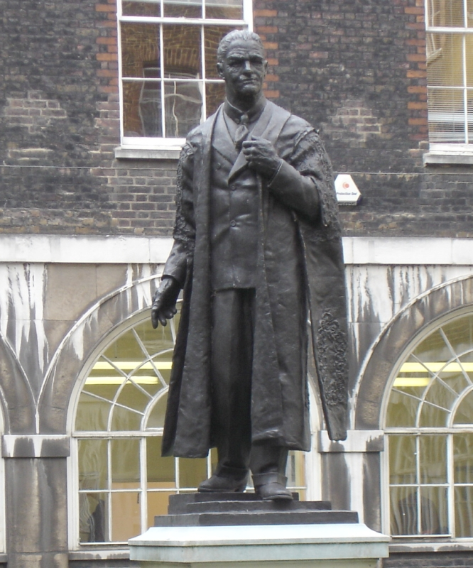 Statue Of Viscount Nuffield at Guy's Hospital, London